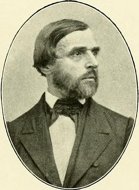 Portrait of the French botanist Jean Louis Kralik